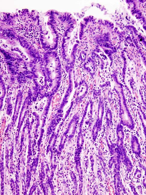 Histopathological image of well differentiated gastric adenocarcinoma. H & E stain.